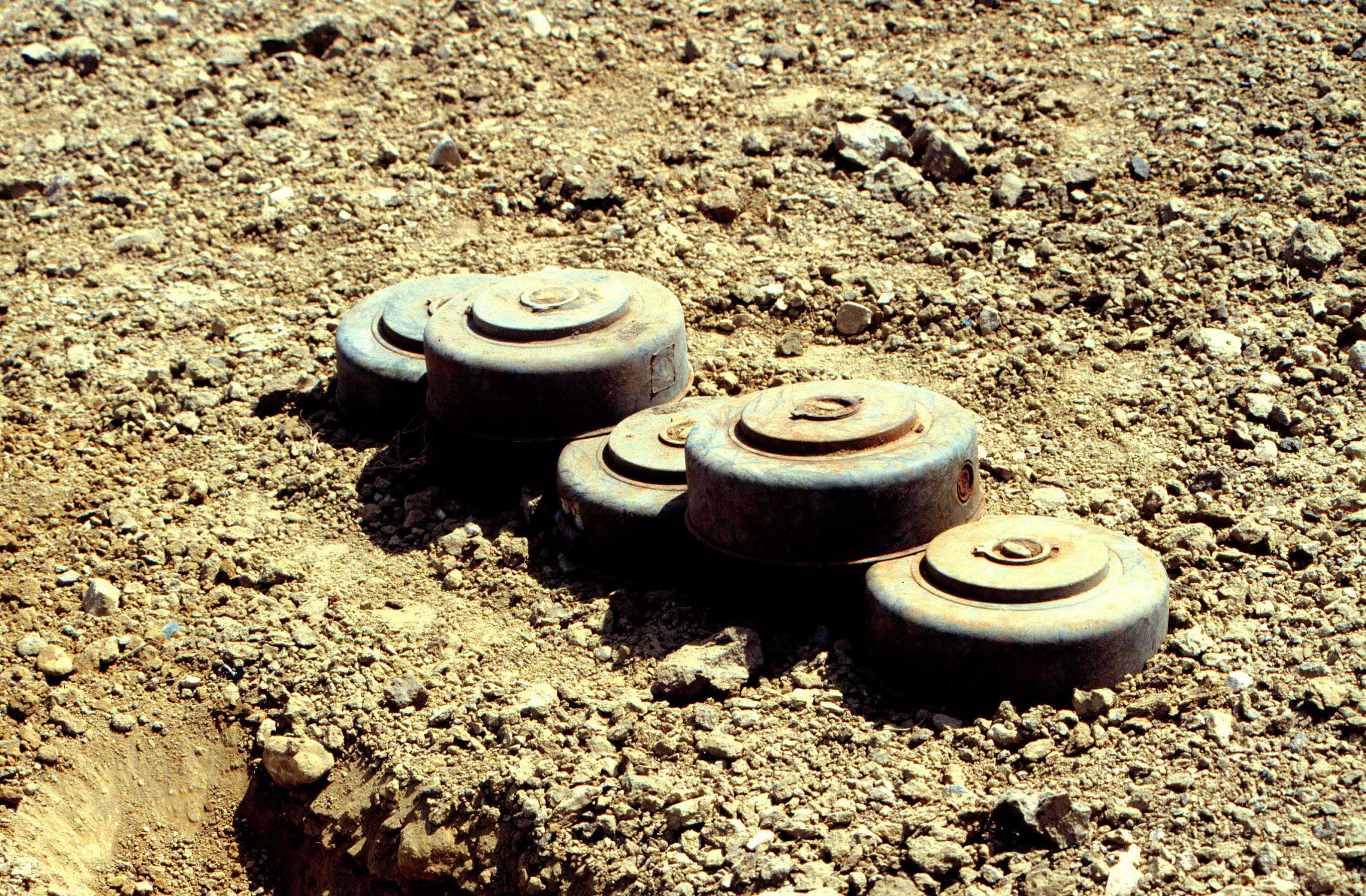 Five M15 anti-tank land mines are stacked for destruction at a demolition site on Naval Station Guantanamo Bay, Cuba, in this July 10, 1997, file photo. Anti-personnel and anti-tank land mines on the U.S. side of the fence separating Communist Cuba and the U.S. Naval Base at Guantanamo Bay are being removed in accordance with the Presidential Order of May 16, 1996. Approximately 50,000 land mines were placed in the buffer zone between Communist Cuba and Guantanamo Bay beginning in 1961 as a result of the Cold War. The land mines are being replaced by motion and sound sensors to detect any incursion onto the base.